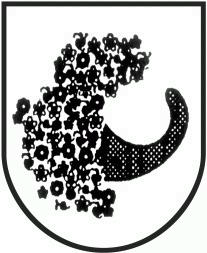 Coat of arms of Hornburg